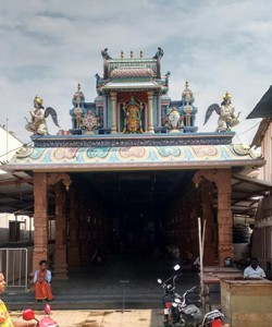 Thanthondrimalaivenkatramanaswamytemple தாந்தோன்றிமலை கல்யாணவெங்கடரமணசுவாமி கோயில்